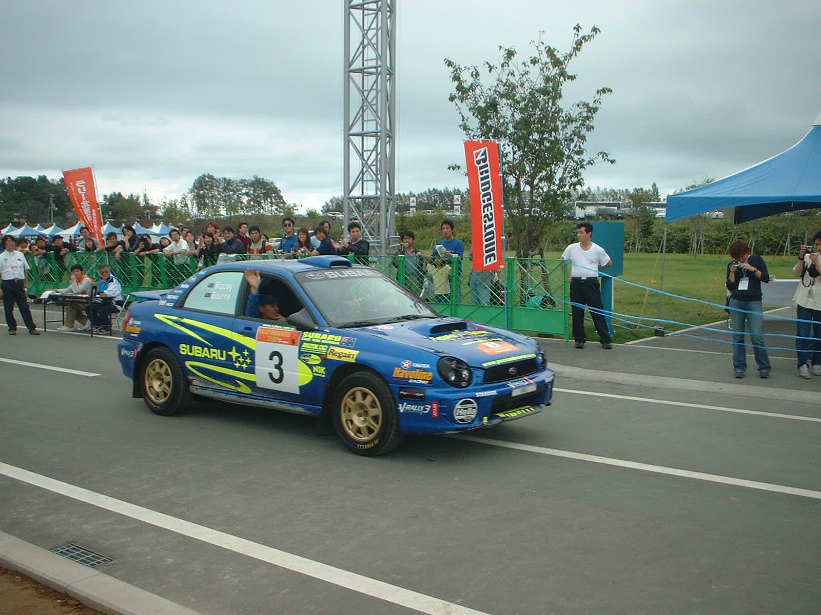 Subaru Impreza WRX STi (group A) driven by Possum Bourne in RallyHokkaido2002.